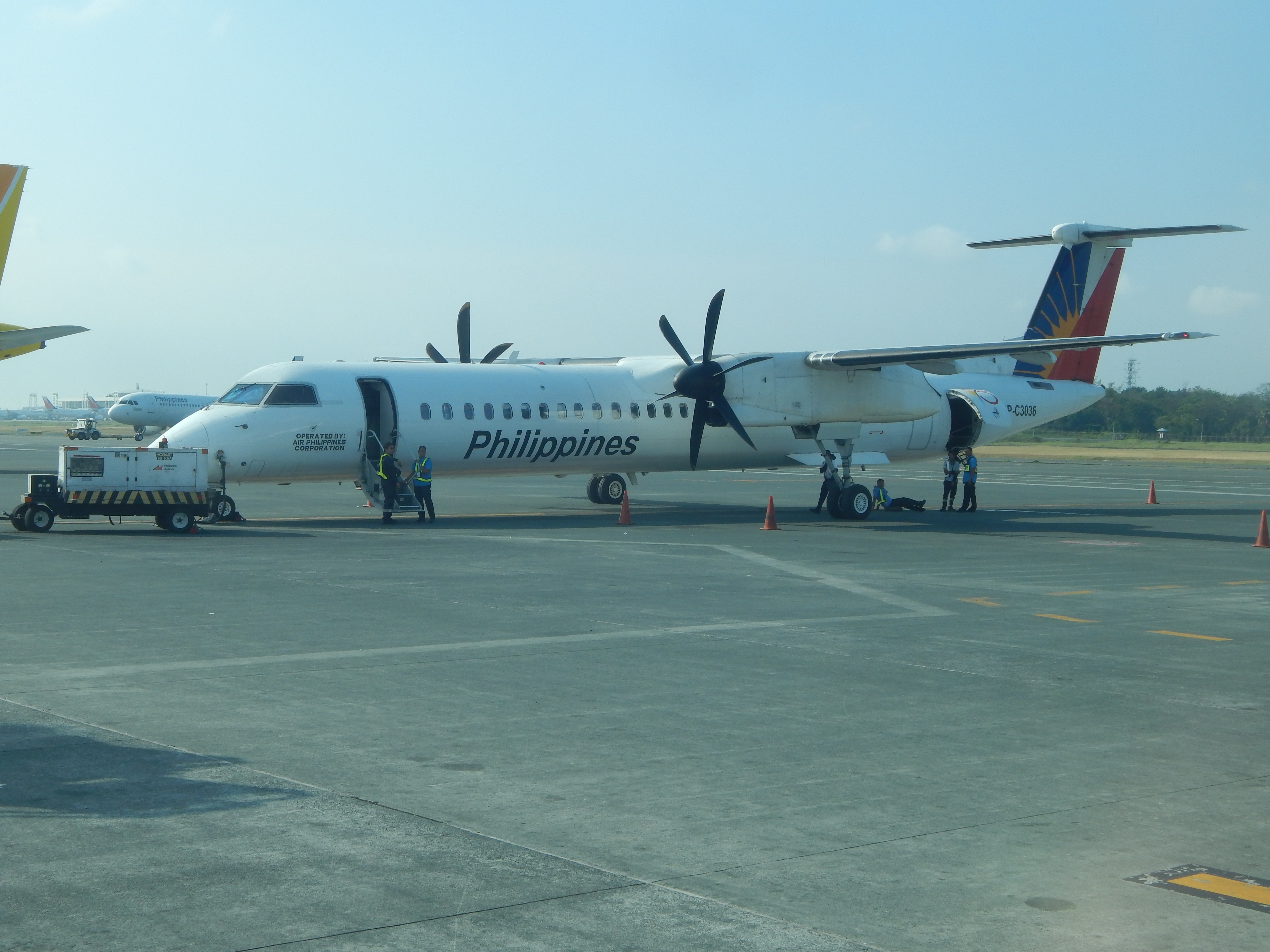 Getting ready to take me to Caticlan is this Q400. Surprised at how beaten up these planes are inside. However, a nice smooth 50 minute flight with a snack and a glass of water to boot.